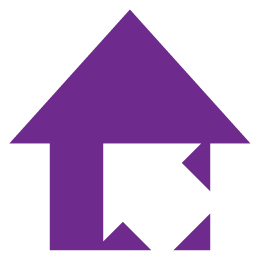 Logo of the Booth Centre charity